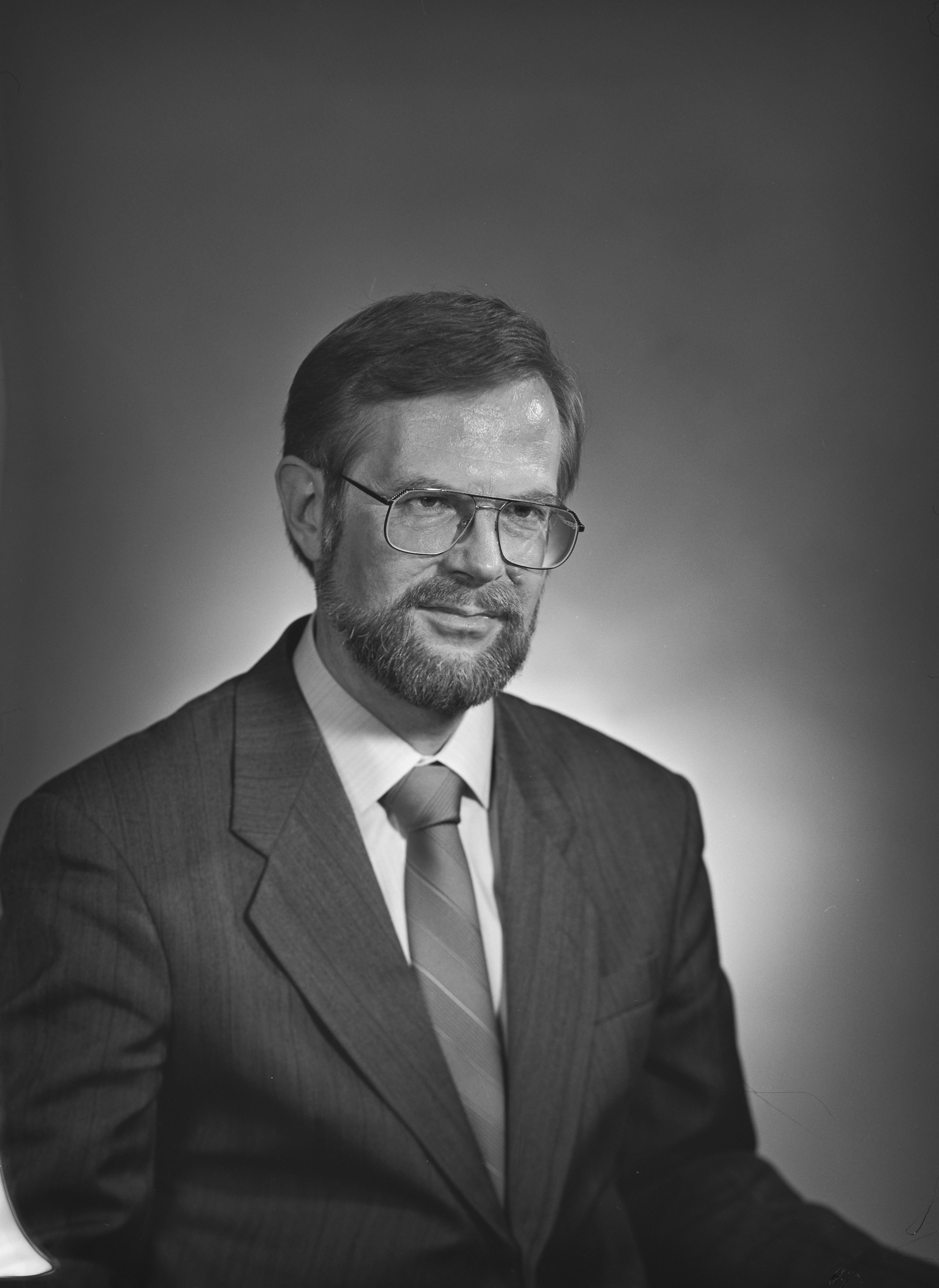 Photograph of the Finnish mathematician Aatos Lahtinen (1942–).